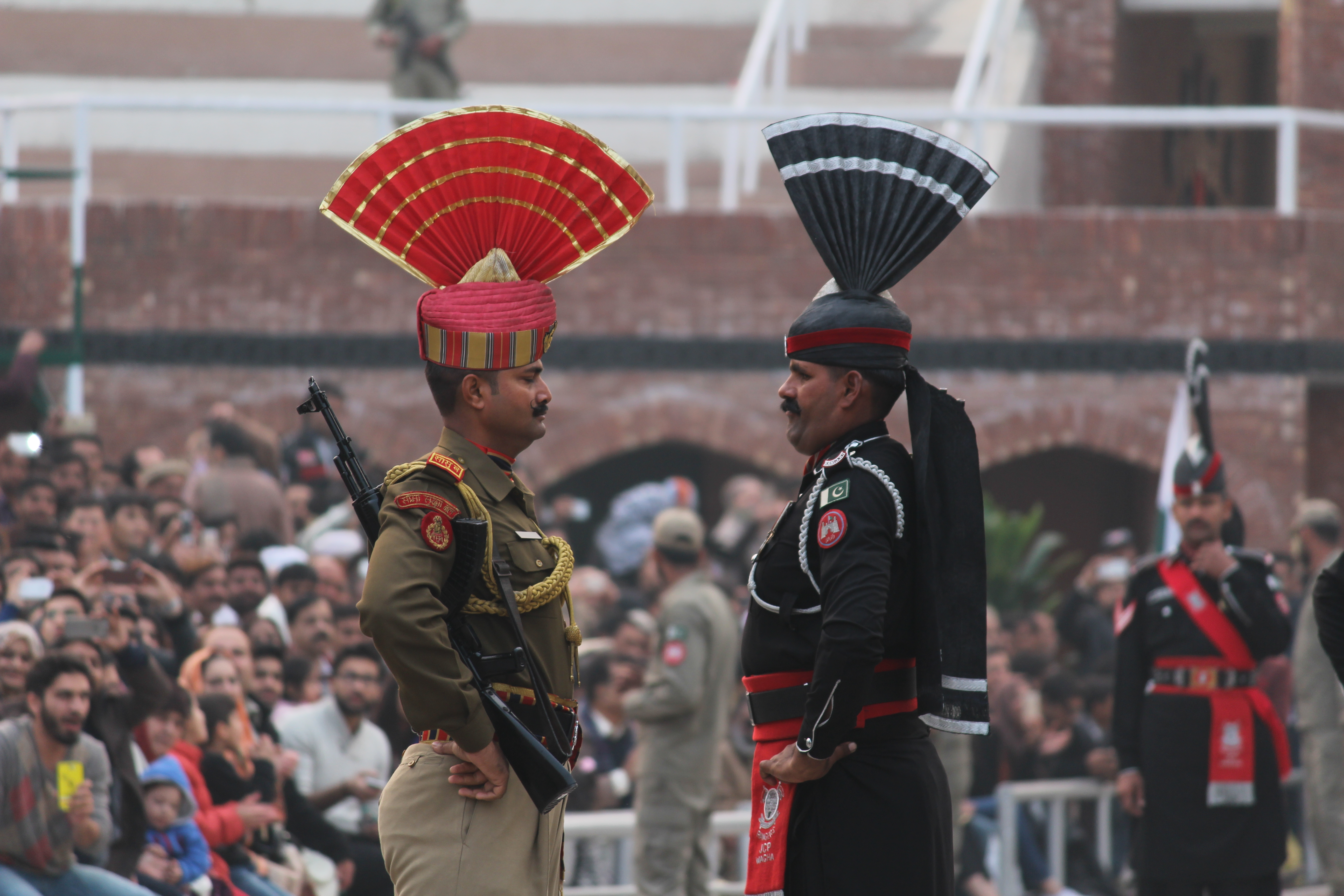 Beating retreat ceremony at Wagah Border of India-Pakistan. The two soldiers look at them sternly to show aggression.